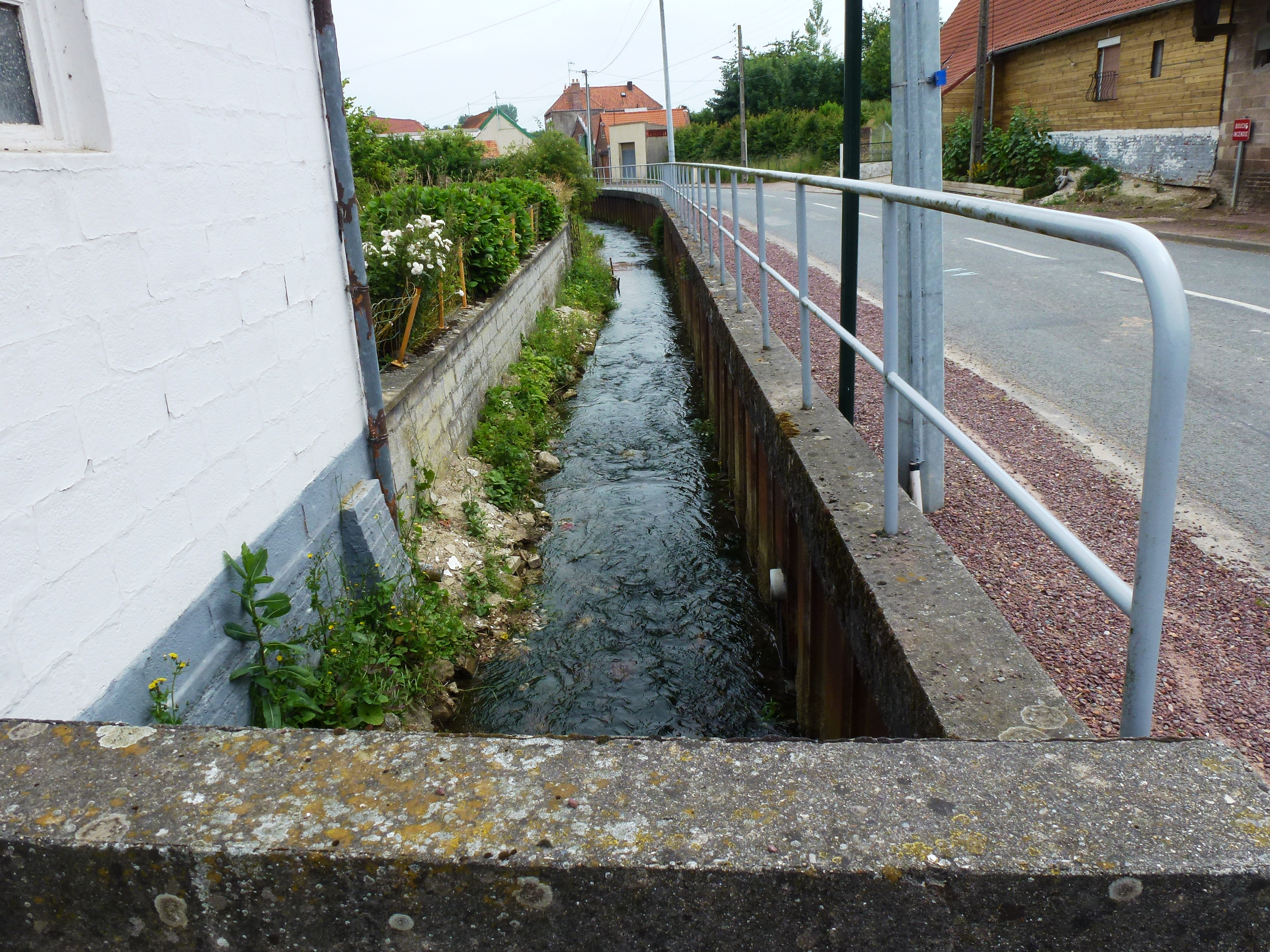 Nédonchel (Pas-de-Calais) rivière la Nave